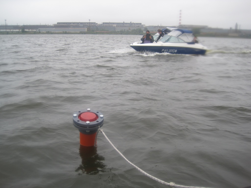 wave generator Ocean 160